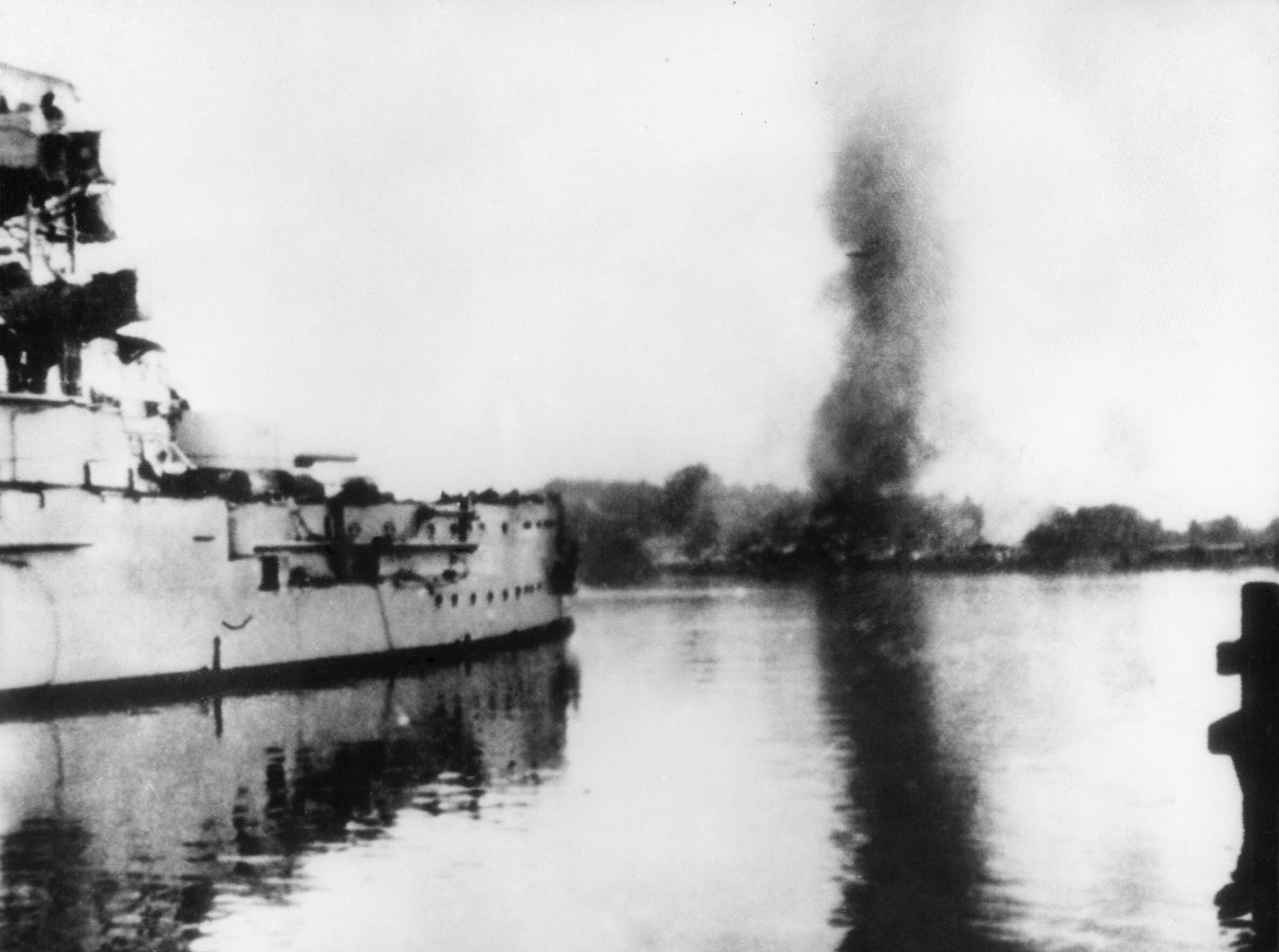 The Nazi-soviet Invasion of Poland, 1939 German battleship SMS "Schleswig-Holstein" firing at the Polish Military Transit Depot during the siege of Westerplatte.